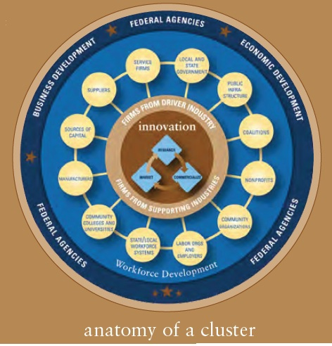 Diagram of developing a strong regional cluster